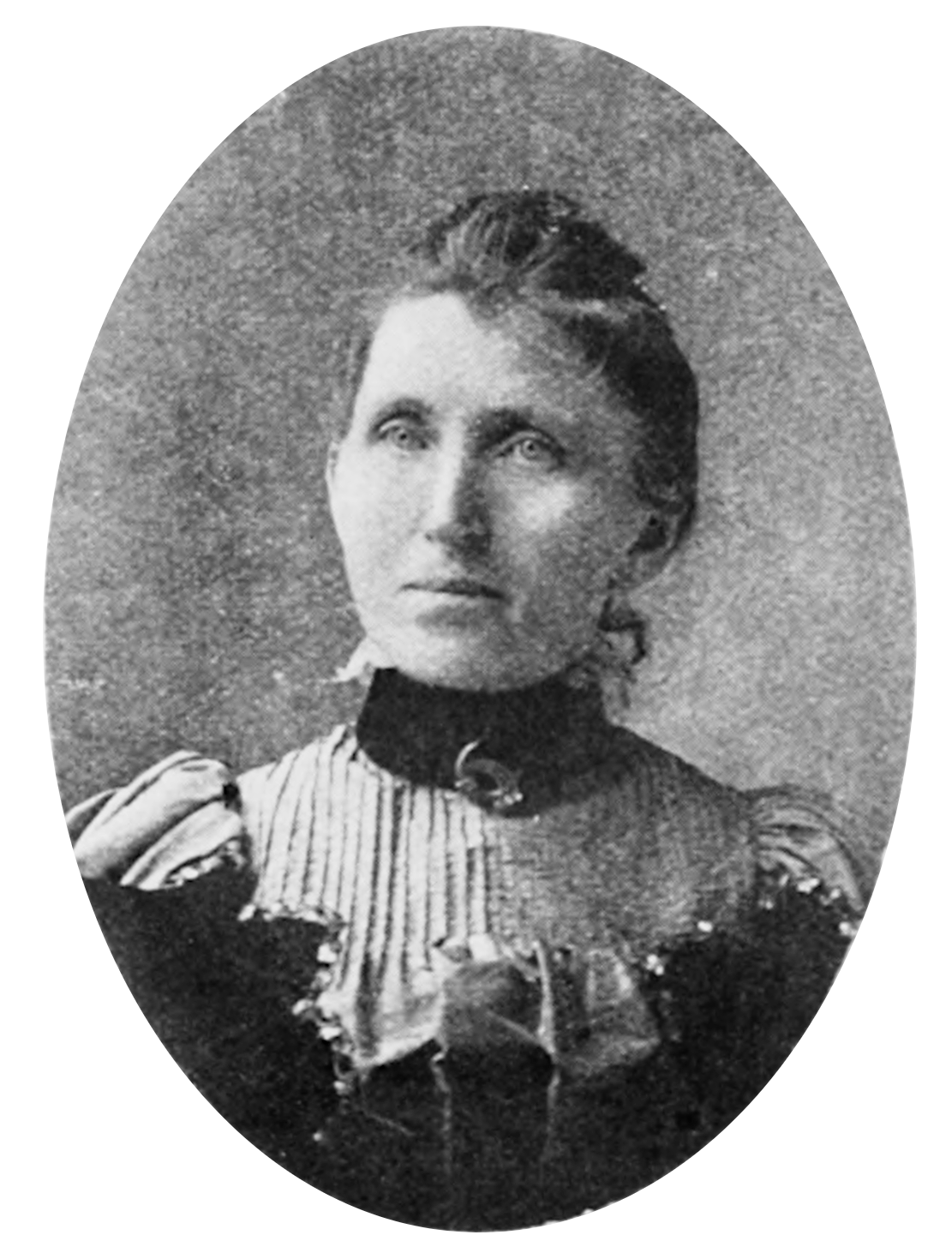 Isabel Richey, author photograph from When Love Is King by Isabel Richey, Geo. F. Lasher (1900)